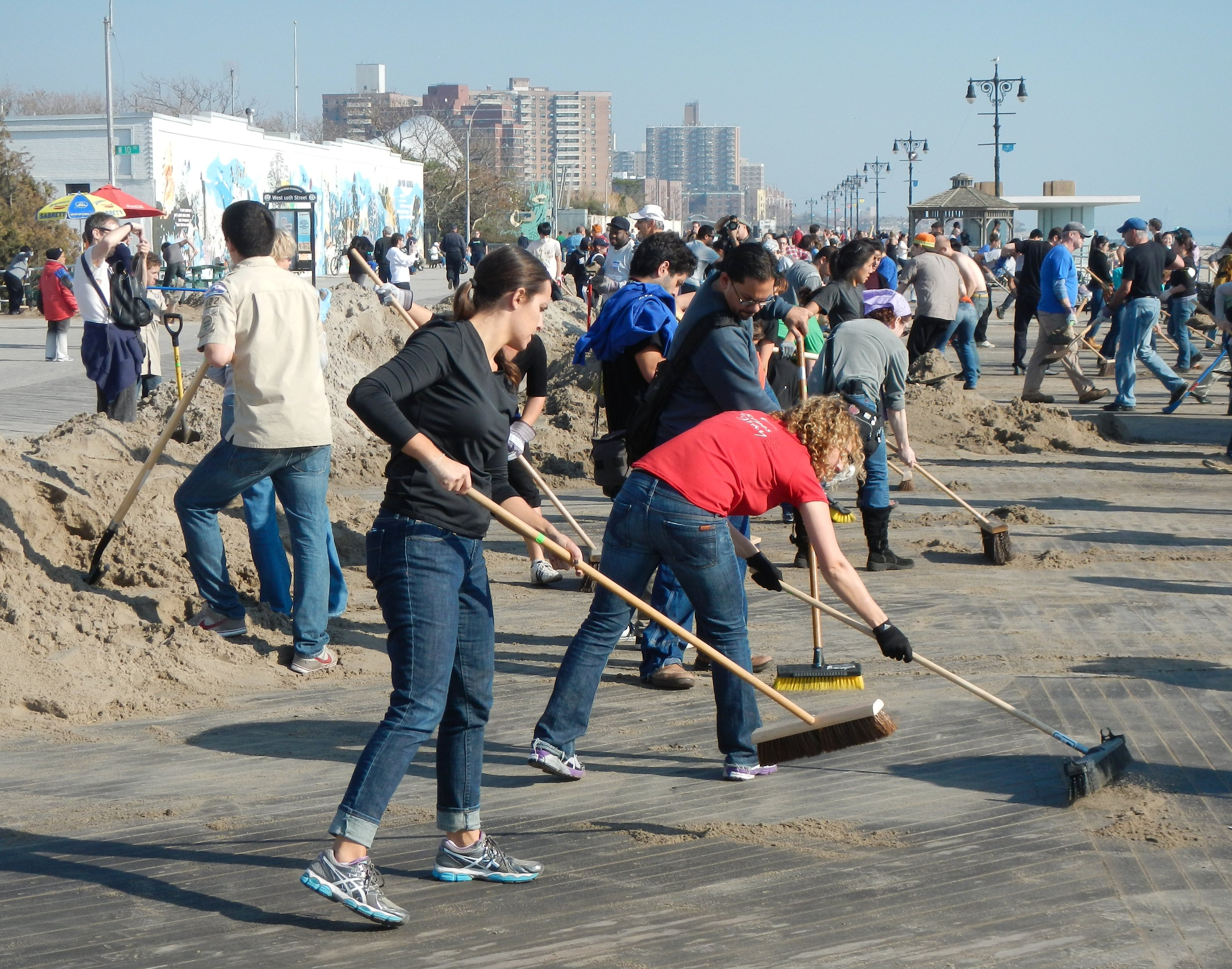 Looking northeast as volunteers with new push brooms sweep the boardwalk on a sunny midday.